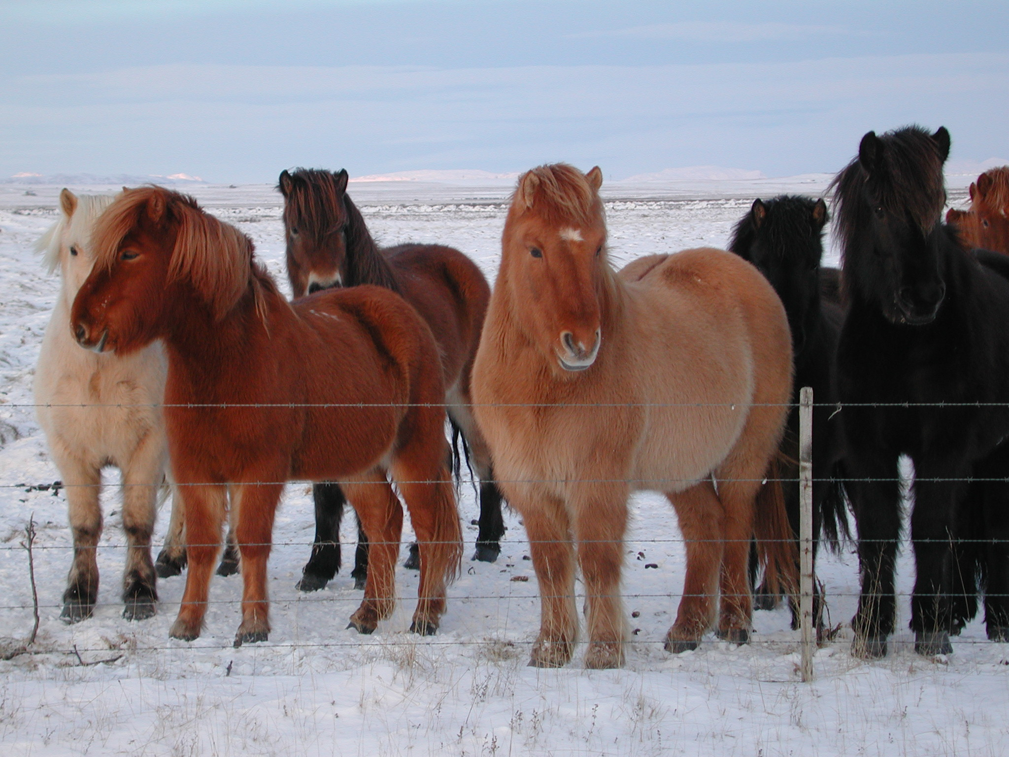 Icelandic horse